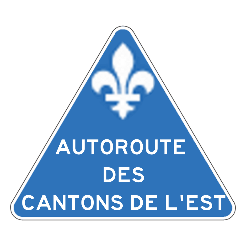 Old shield for the Eastern Township autoroute.